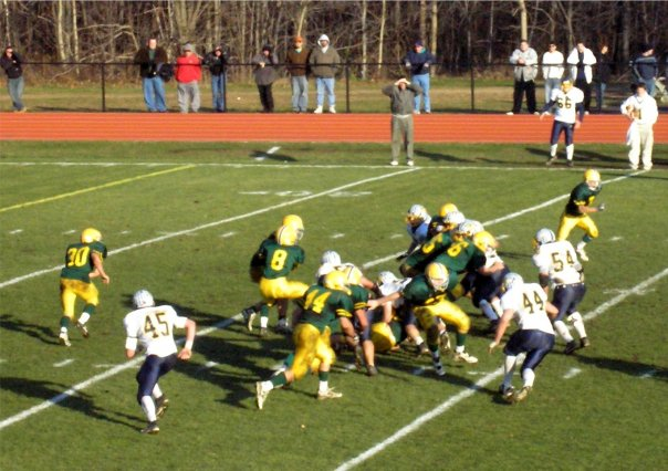 Morris Knolls High School football team executing a typical Houston Veer play in 2005.